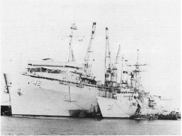 The U.S. Navy destroyer tender USS Acadia (AD-42) with the guided missile frigate USS Stark (FFG-31) alongside. Acadia repaired Stark after she had been hit by two Iraqi Exocet missiles on 17 May 1987.